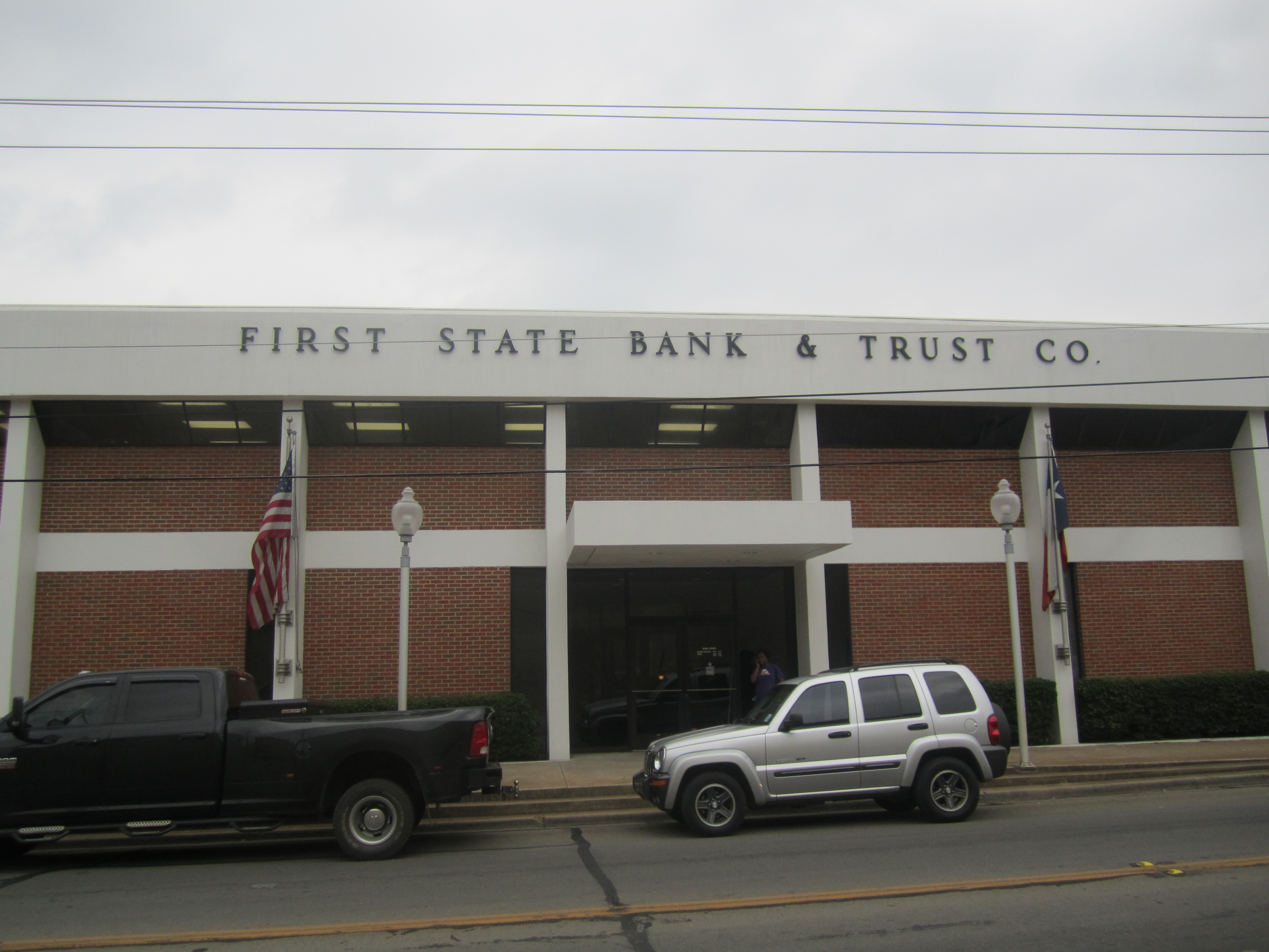 I took photo with Canon camera in Carthage, TX.